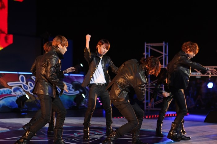 BEAST in June 9, 2012, during the Expo 2012 Yeosu.